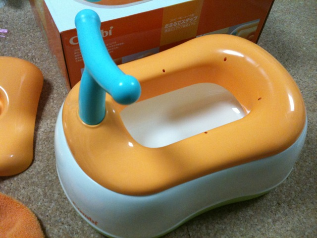 Omaru (おまる or 御虎子), a small bowl used by little kids as a toilet